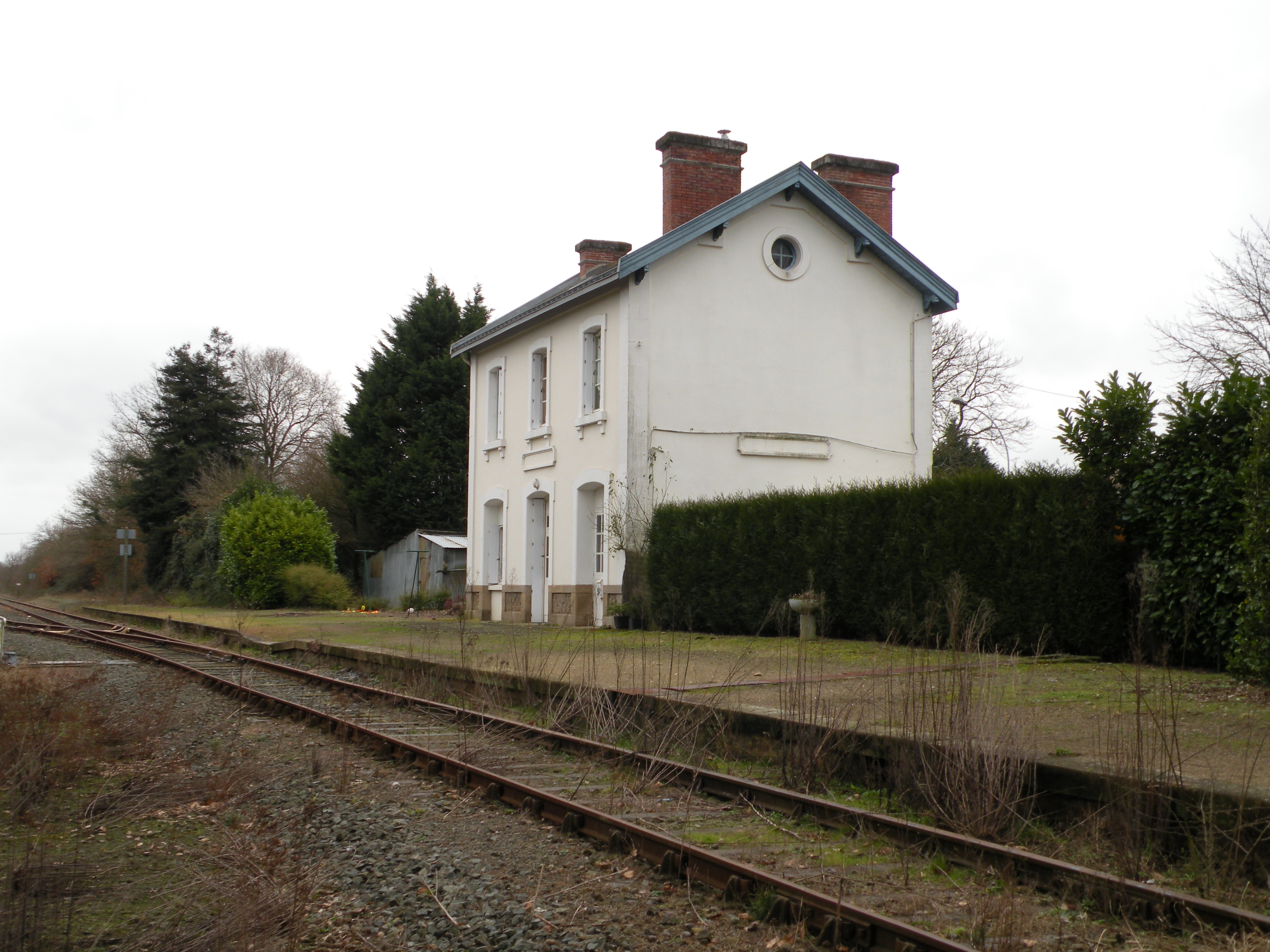 Former railway station of Carquefou